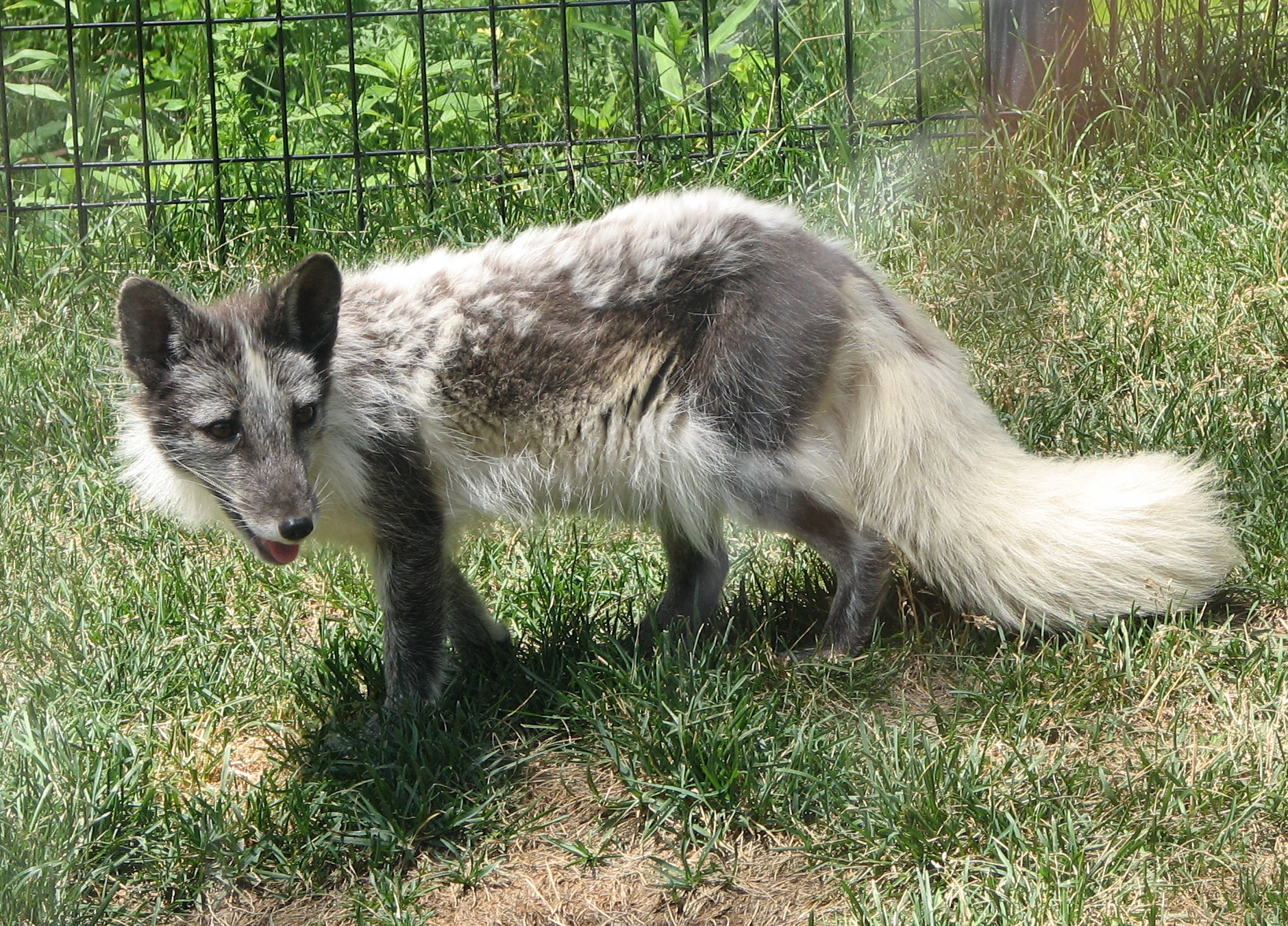 Arctic Fox